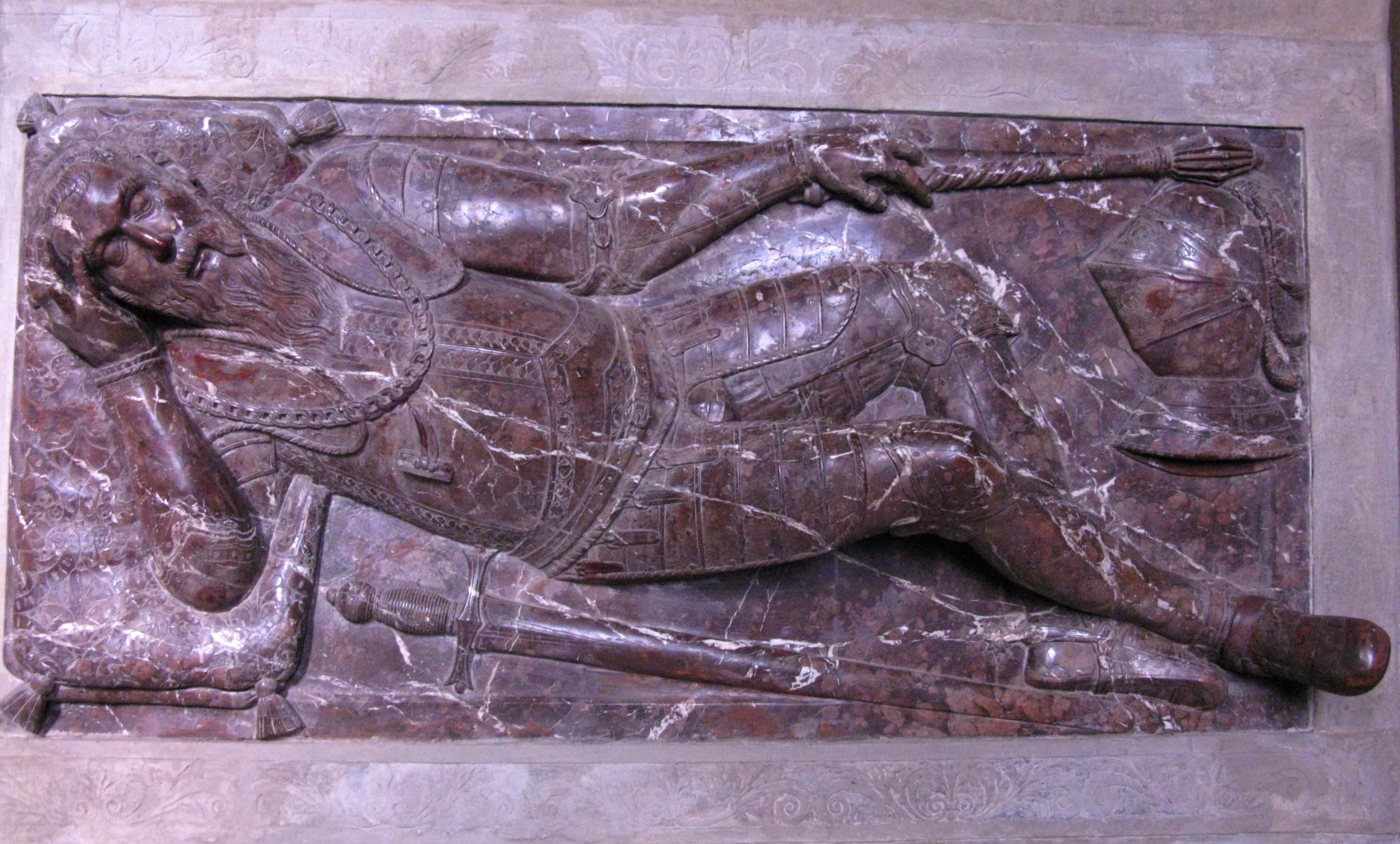 Tomb effigy of Jan Kamieniecki, voivode of Podolia